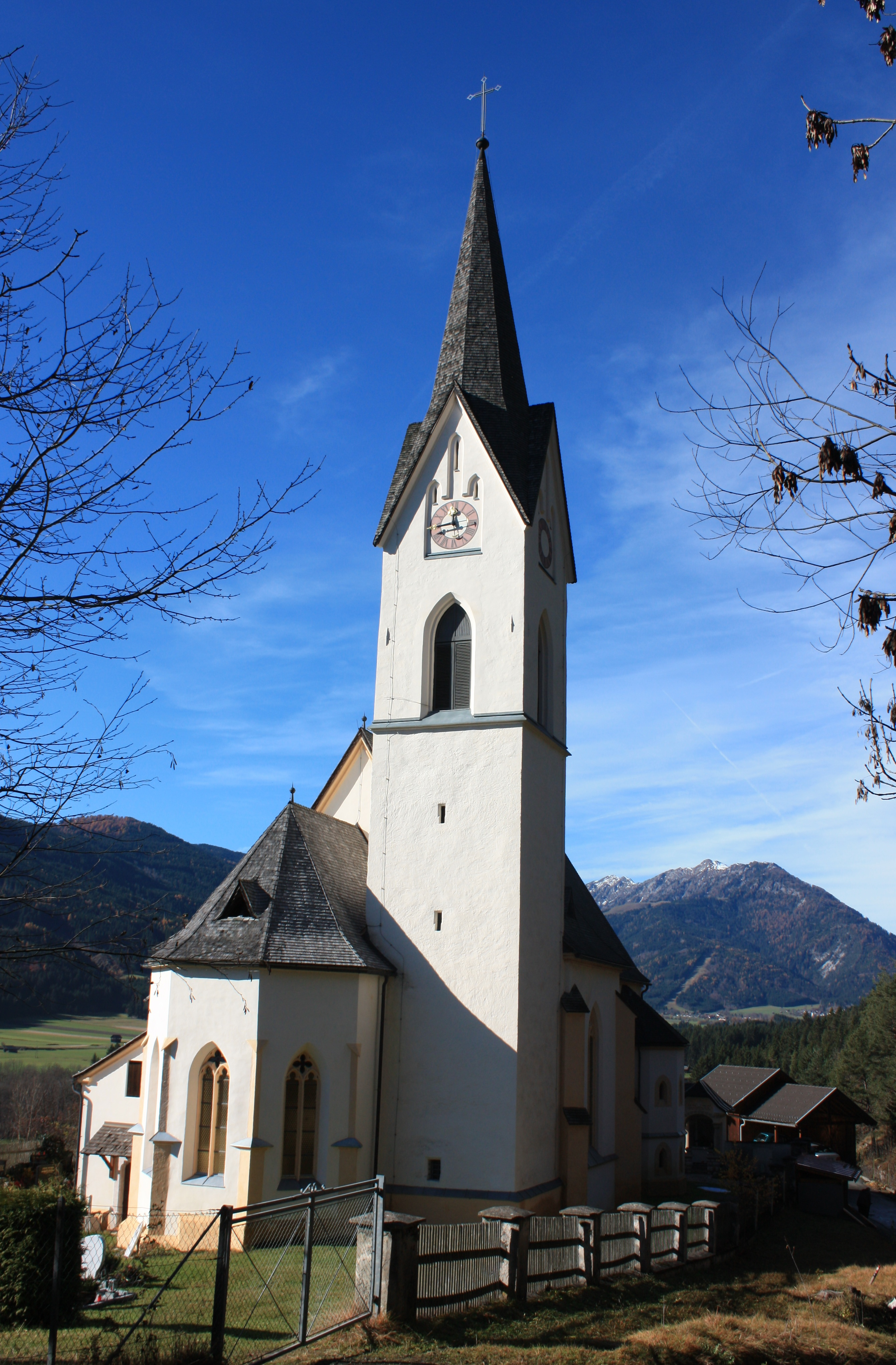 Parish church in the village Sankt Lorenzen in the community Gitschtal